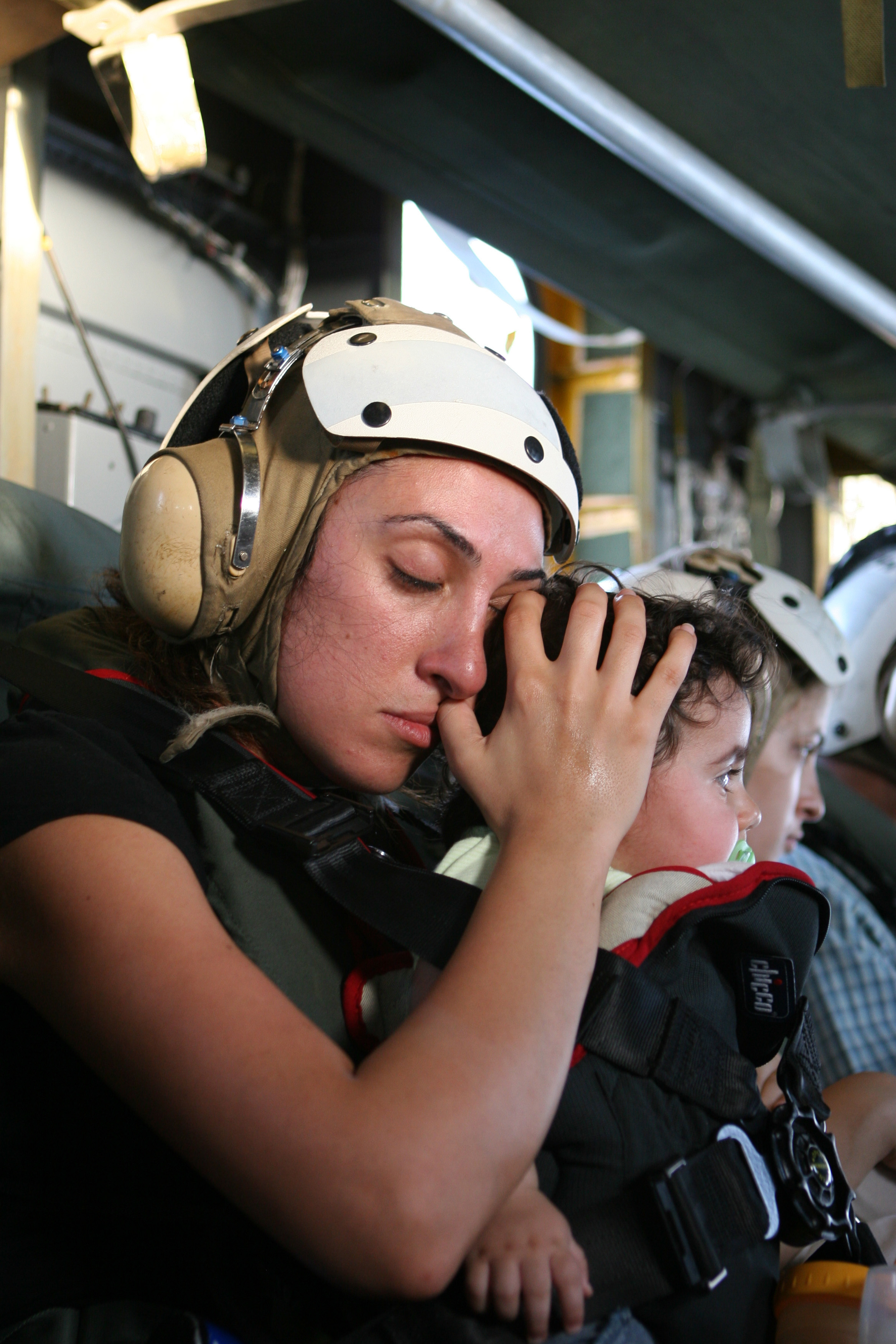 An American woman calms a child while flying in a U.S. Marine Corps CH-53 Super Stallion helicopter from the U.S. Embassy in Beirut, Lebanon, to Royal Air Force Base Akrotiri in Cyprus on July 18, 2006. At the request of the U.S. Ambassador to Lebanon and at the direction of the Secretary of Defense, the United States Central Command and 24th Marine Expeditionary Unit are assisting with the departure of U.S. citizens from Lebanon. The helicopters are attached to Marine Medium Helicopter Squadron 365.